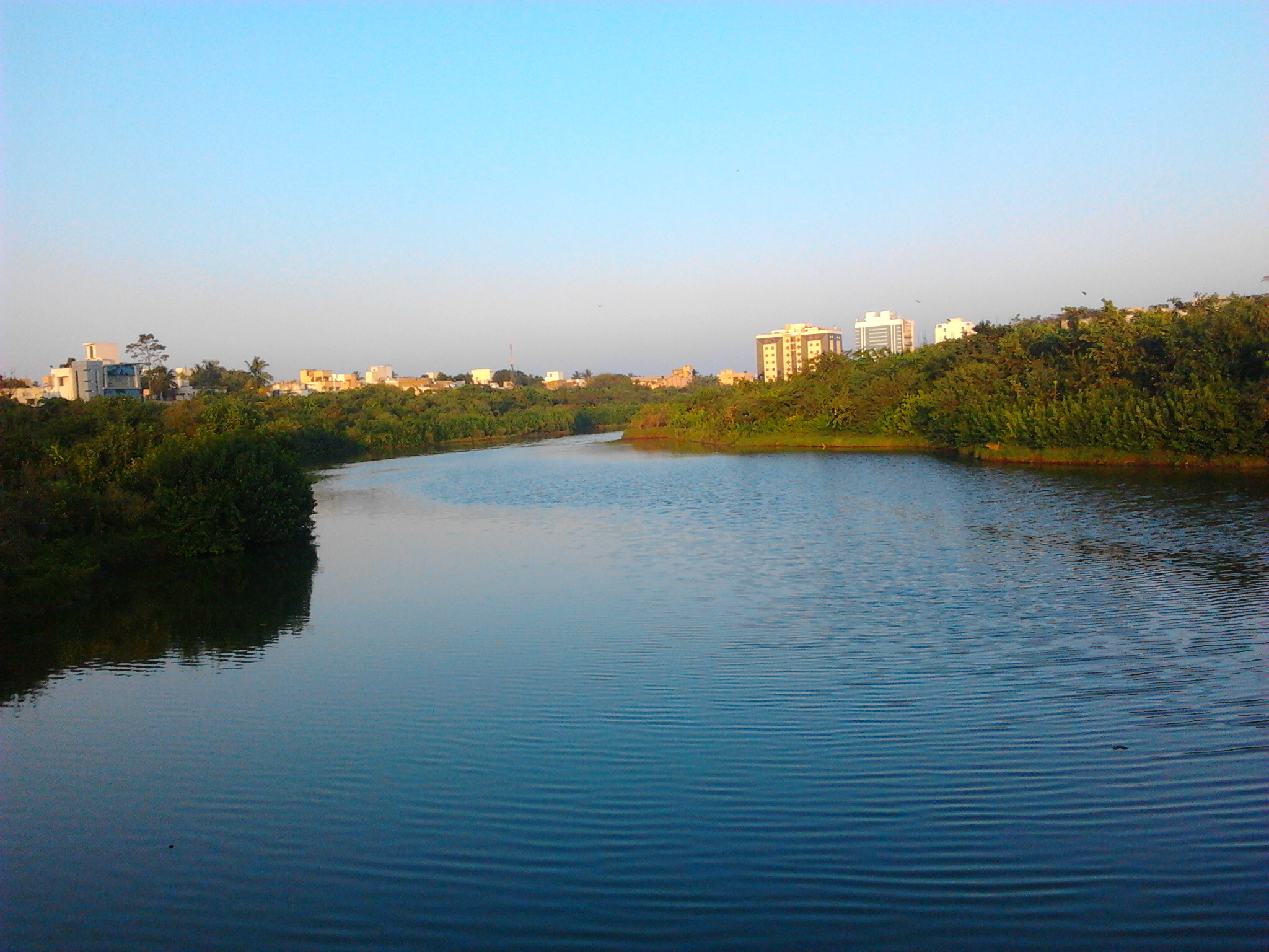 Photoed using Samsung Wave 525.